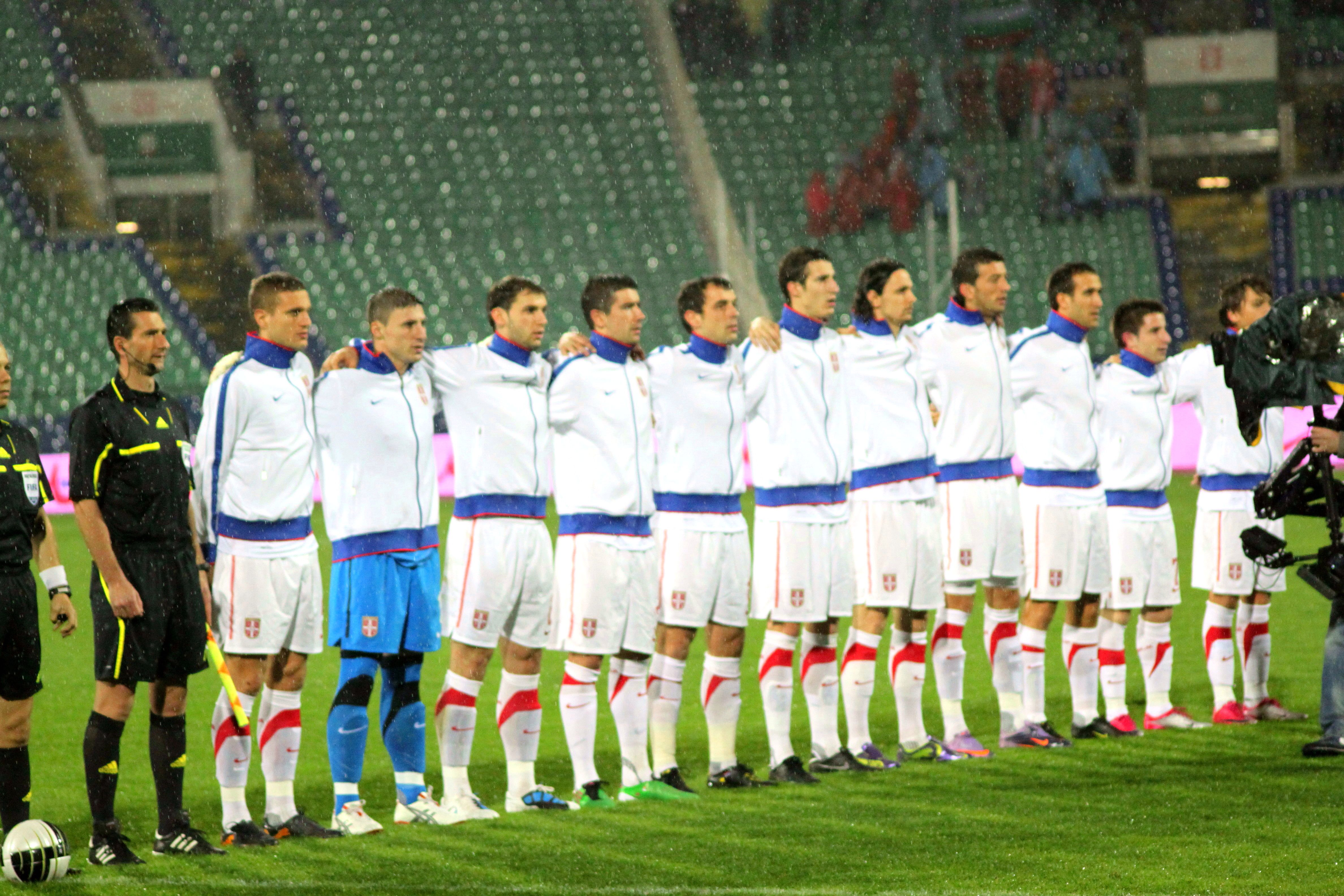 The Serbia national football team (Serbian: Фудбалска репрезентација Србије, Fudbalska reprezentacija Srbije) represents Serbia in association football and is controlled by the Football Association of Serbia, the governing body for football in Serbia. Serbia's home ground is Stadion Crvena Zvezda in Belgrade and their head coach is Vladimir Petrović. Both FIFA and UEFA consider the Serbia national team the direct descendant of the SFR Yugoslavia national football team. In 2010, for the first time in history, Serbia was represented as an independent nation in the FIFA World Cup.